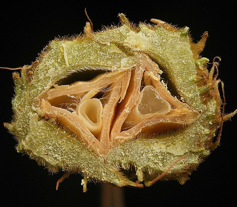 Fagus sylvatica